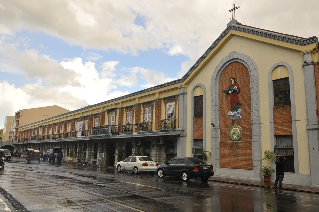 Universidad de Sta. Isabel